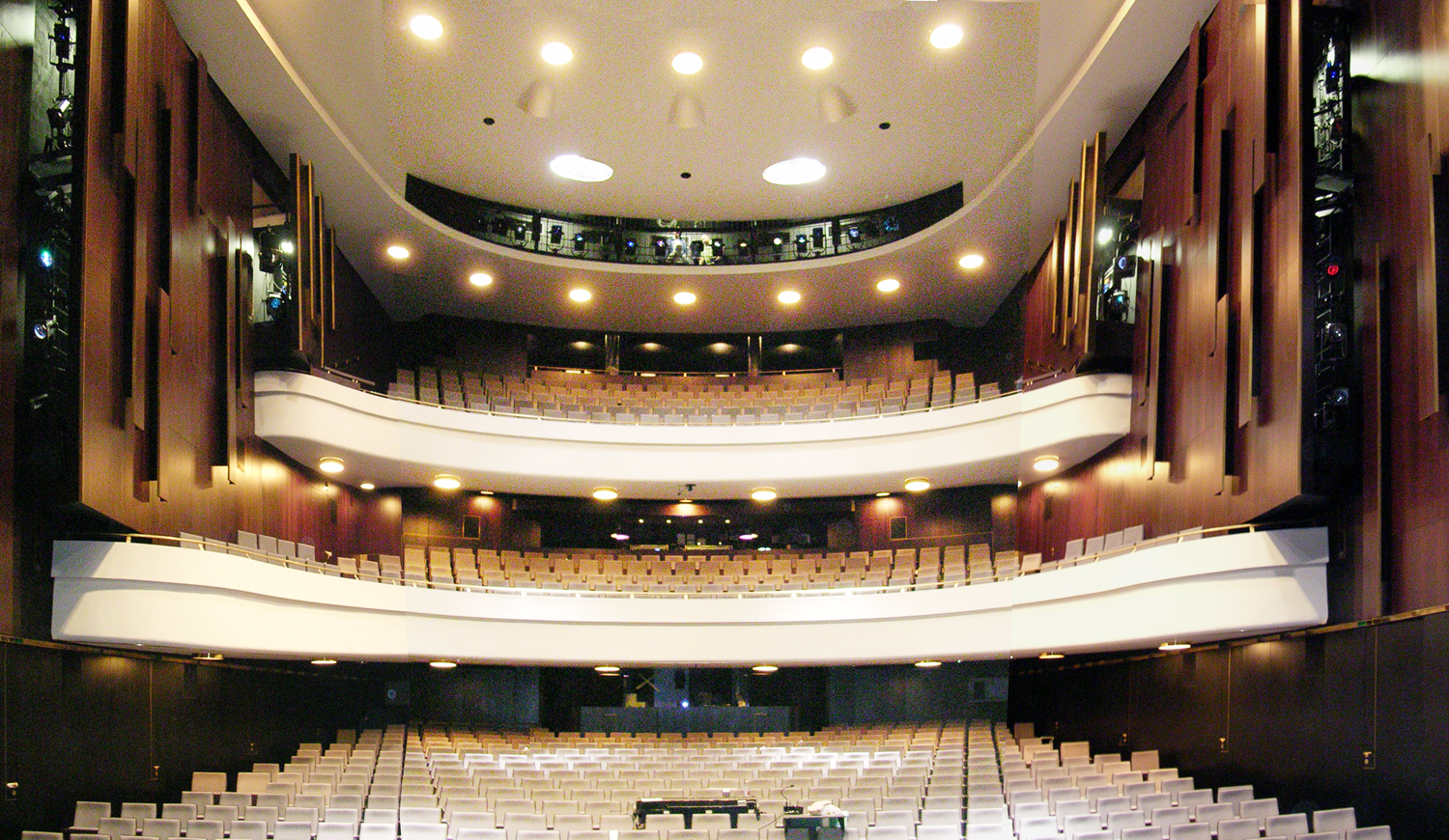 The seats of the Theater am Goetheplatz in Bremen. The foto was taken by Jörg Landsberg, the photographer of the Theater Bremen.